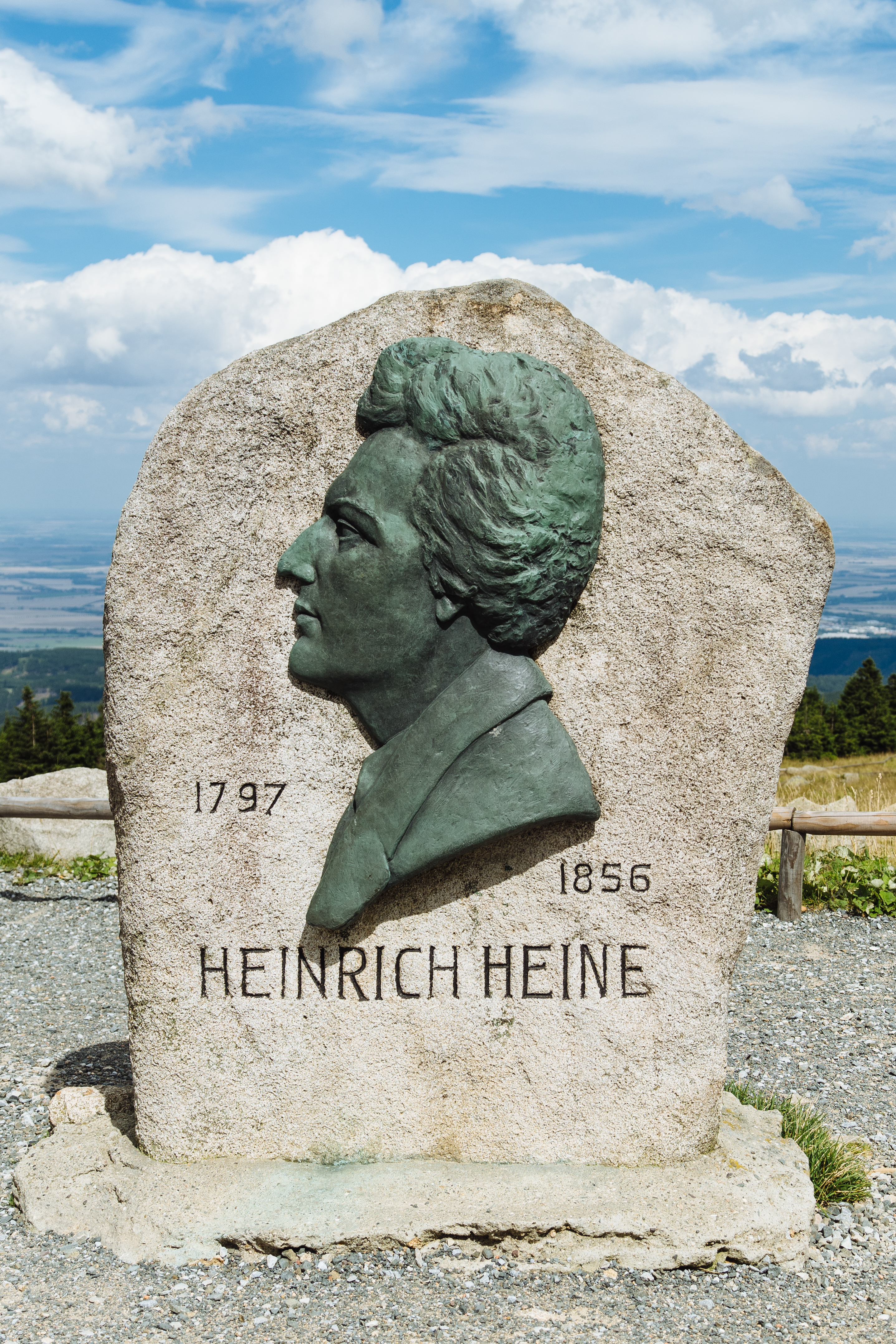 Heinrich Heine monument at the Brocken, Saxony-Anhalt, Germany, 2017